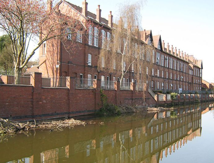 Listed buildings on corner of Cash's Lane and Kingfield Road, Coventry, England, built by Cash's. Rotated crop of File:Coventry Canal - Near Cash's Lane.jpg.